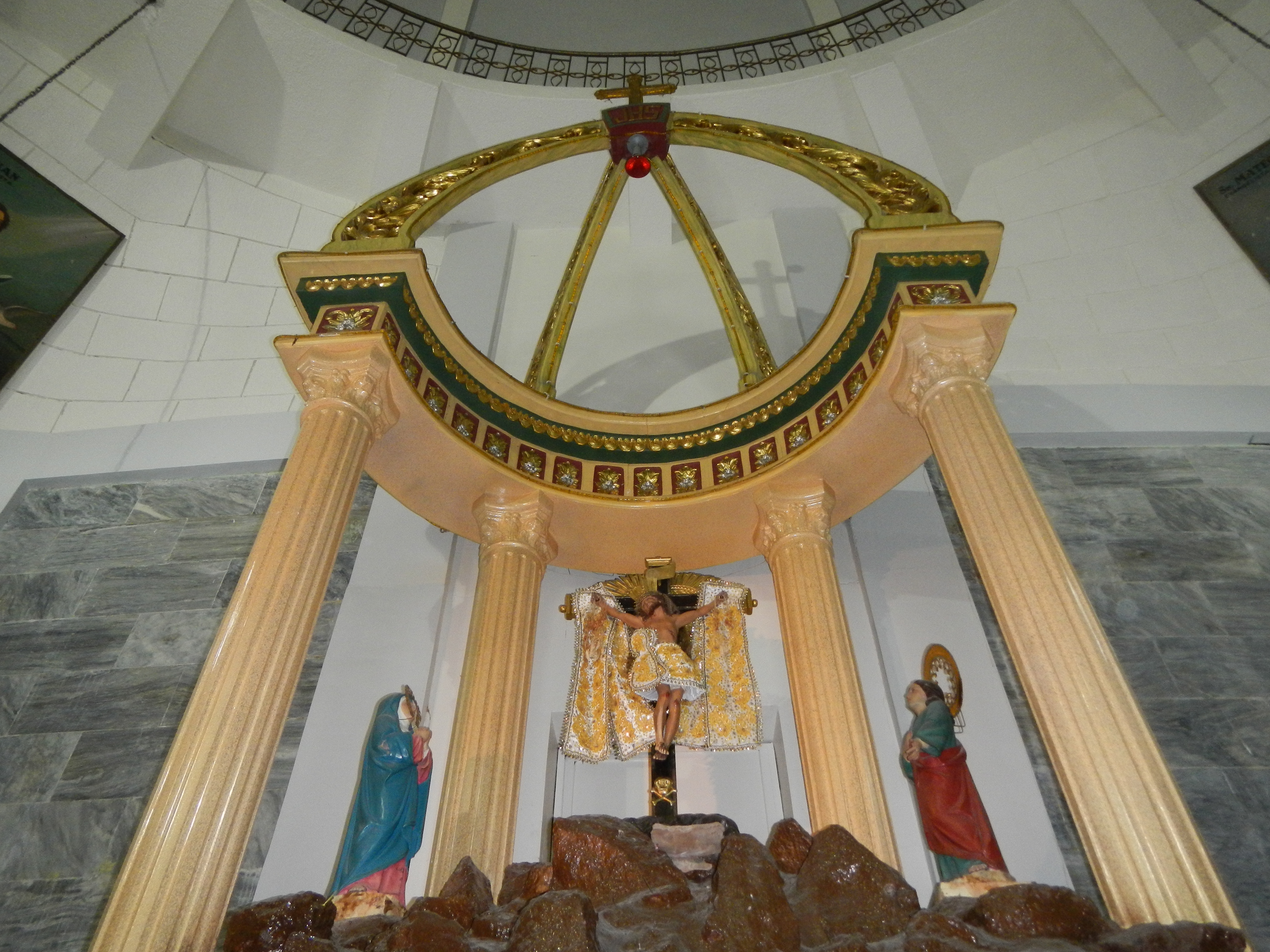 Sto. Cristo Sub-Parish Church – Sto. Cristo, Baliuag, Bulacan, Vicariate of St. Augustine of Hippo – Roman Catholic Diocese of Malolos, (Dioecesis Malolosina) Suffragan of Manila, [1][2] Coordinates: 14°57'19"N 120°53'33"E Nearby cities: San Fernando City, Pampanga, Mabalacat City, Pampanga, Balanga City[3][4][5][6]